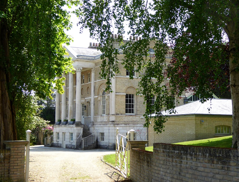 18th century country house, Belfield House, at Wyke Regis, Weymouth, Dorset